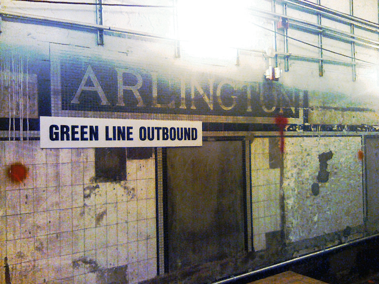 The long-closed Berkeley Street entrance to the Arlington MBTA station, recently reopened due to construction on the main entrances.